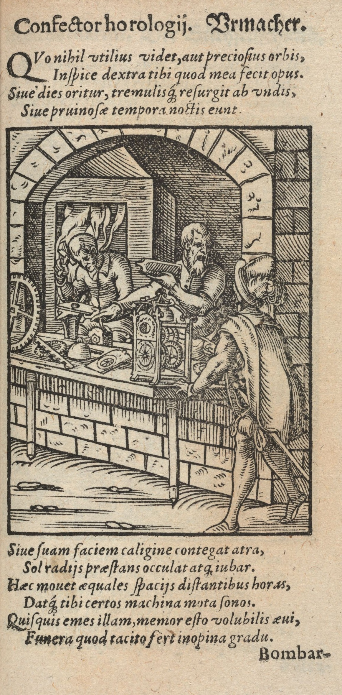 Illustration, H6, from Panoplia omnium illiberalium mechanicarum aut sedentariarum artium genera continens, 1568, by Hartmann Schopper (1542-1595?). Source credits woodcut illustrations to Jost Amman. Typ 520.68.773, Houghton Library, Harvard University